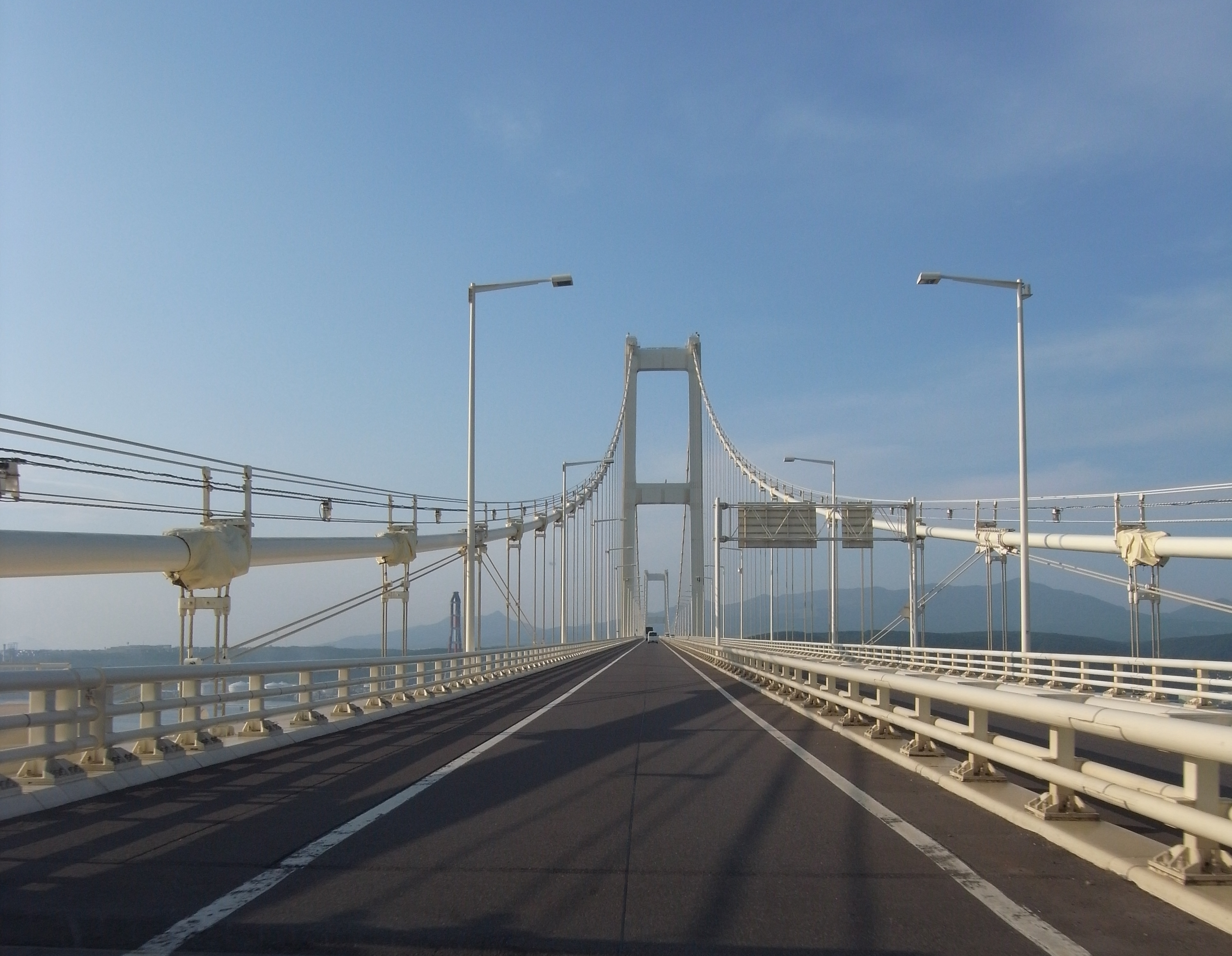 The Hakuchō Bridge in Muroran, Hokkaidō Prefecture